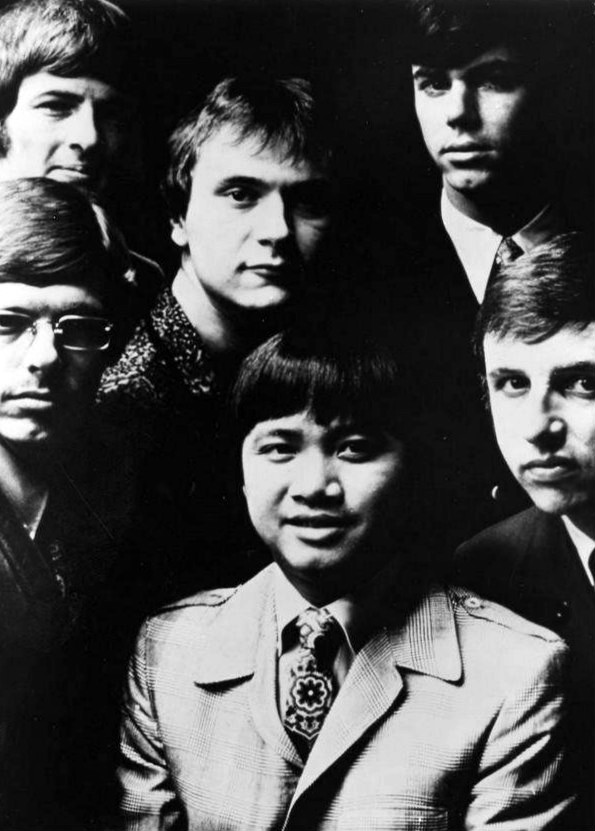 Publicity photo of the music group The Association.